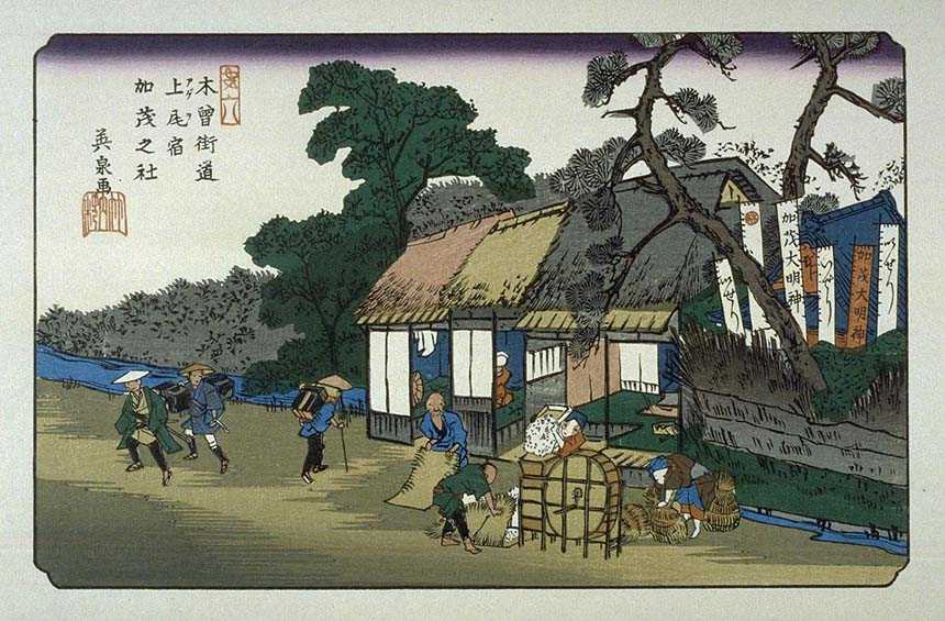 Ageo on the Kisokaido, ukiyo-e prints by Keisai Eisen